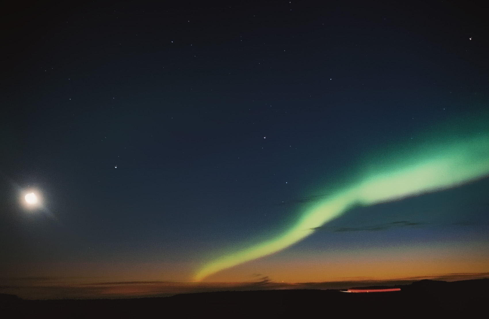 Norther lights and the moon from southwestern Iceland